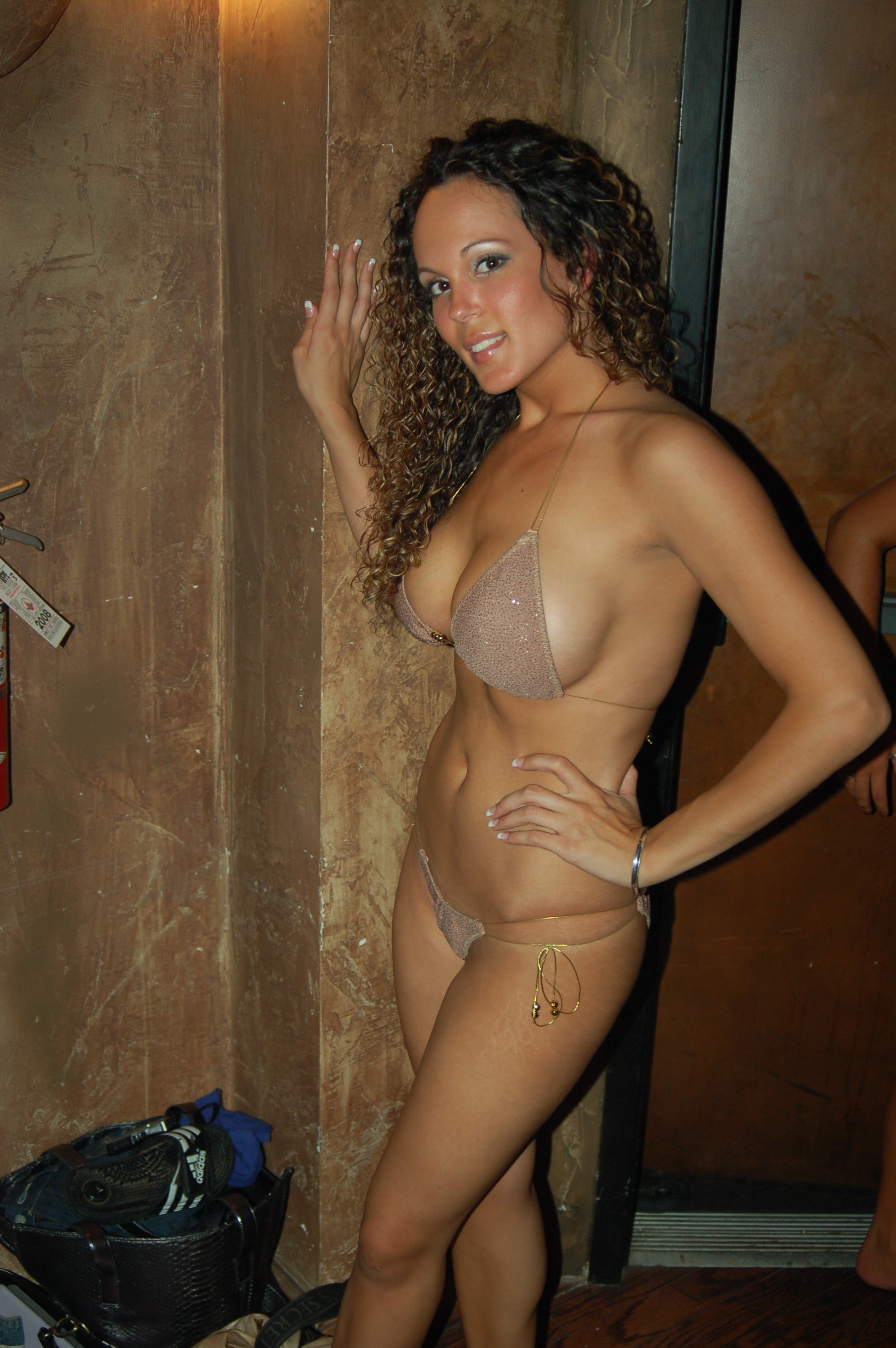 Woman is wearing a brown bikini.